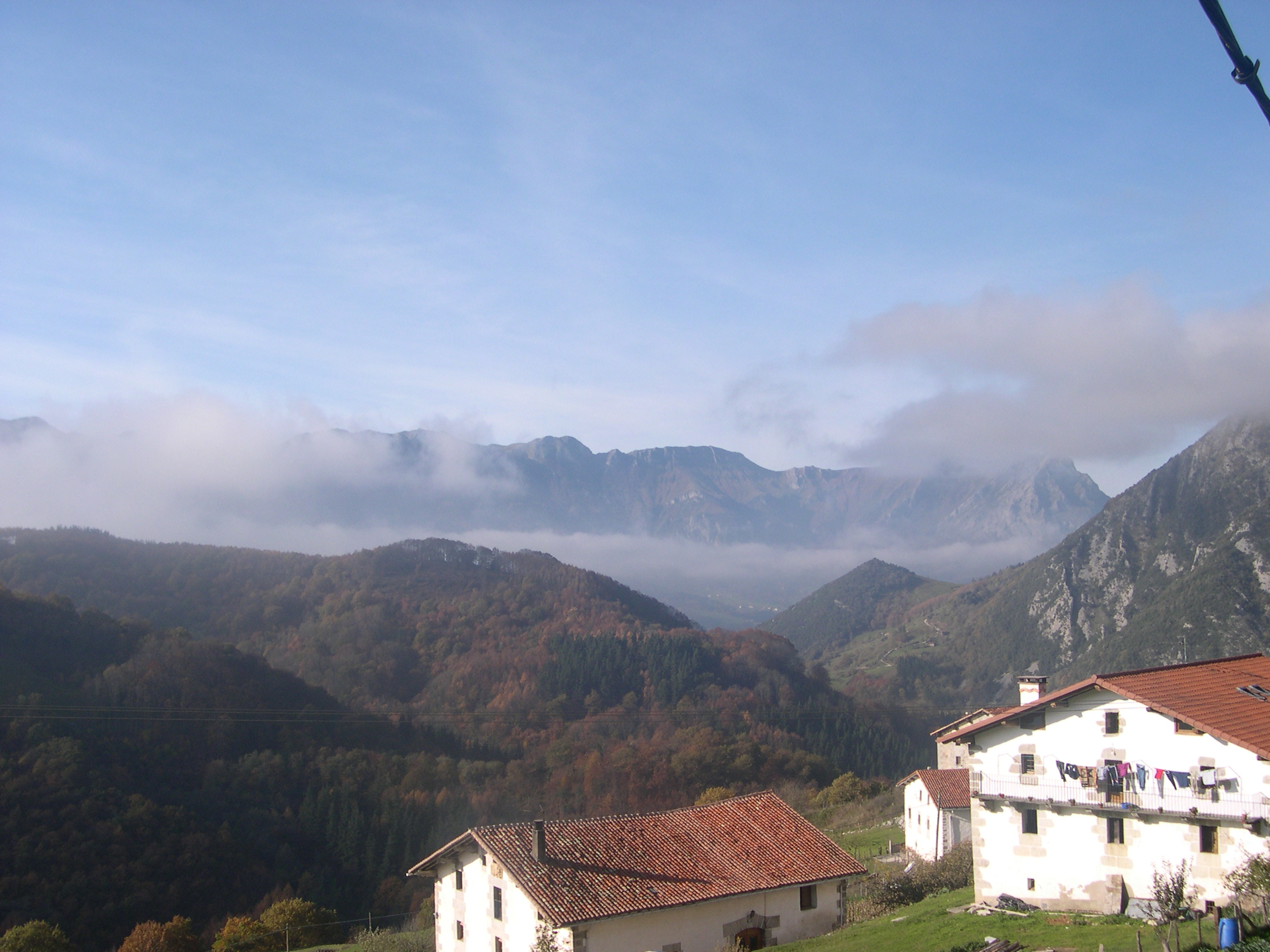 Azpirotz village in Araitz Valley. Navarre. Basque Country.